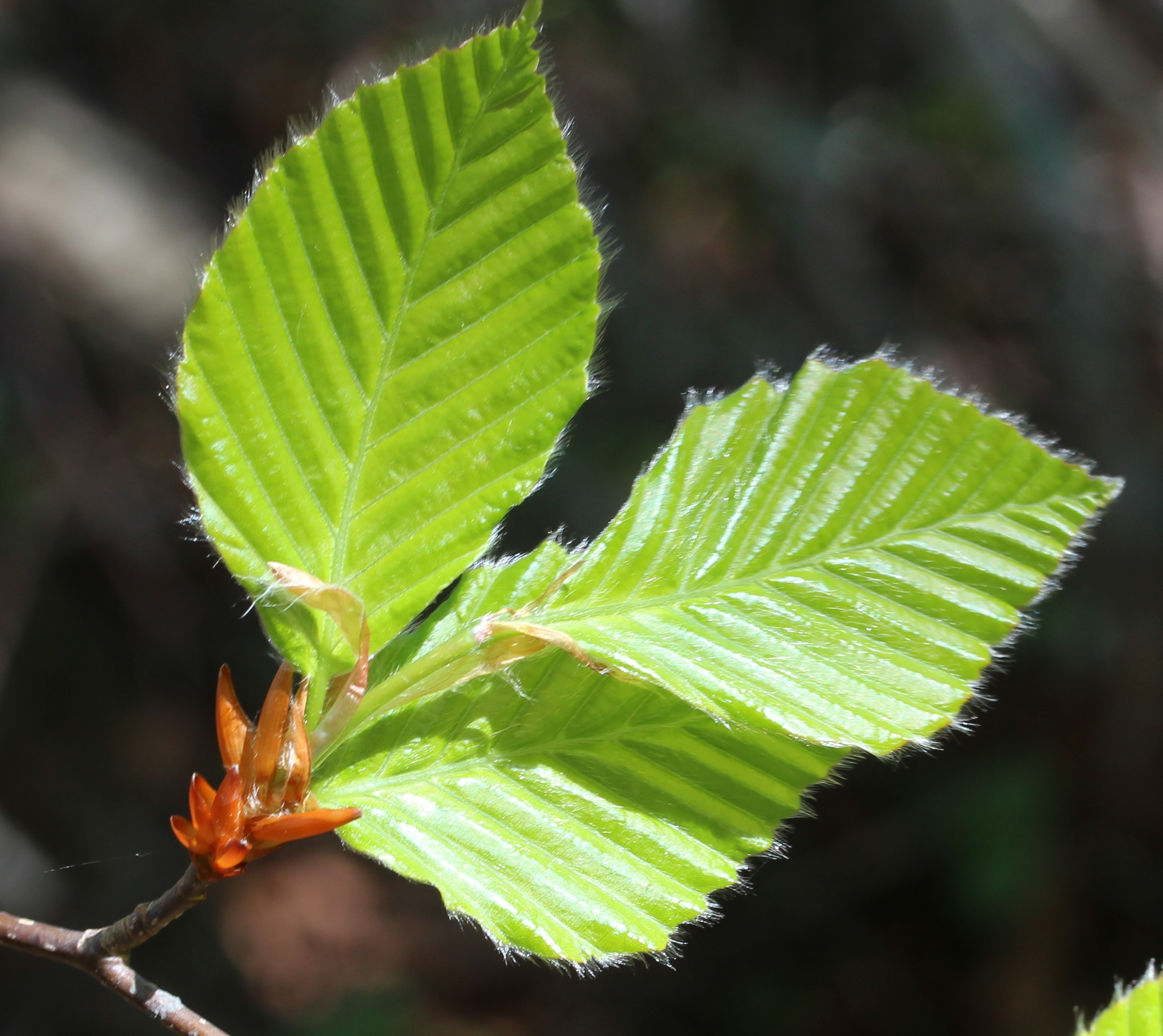 Leaves (front) of Fagus crenata, in Mount Mominuka, Gifu prefecture, Japan.